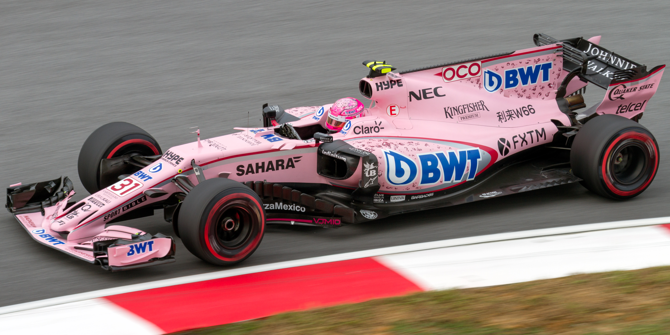 Formula One 2017 Rd.15 Malaysian GP: Esteban Ocon (Force India)